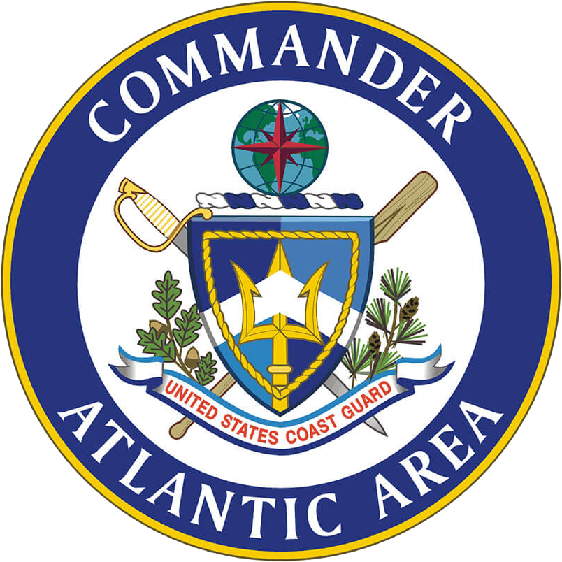 Commander Atlantic Area Crest